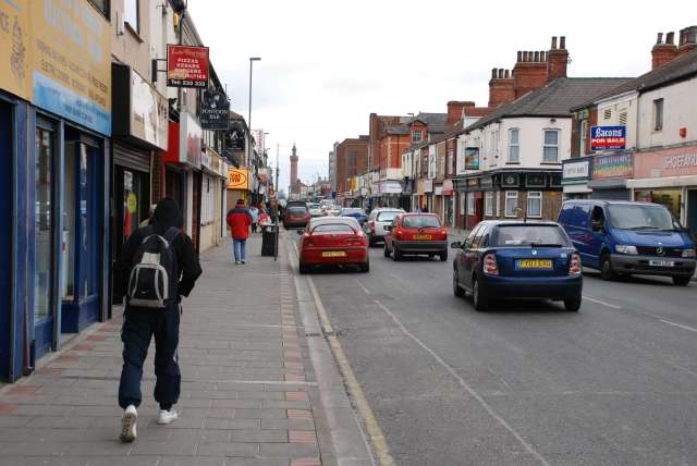 Freeman street